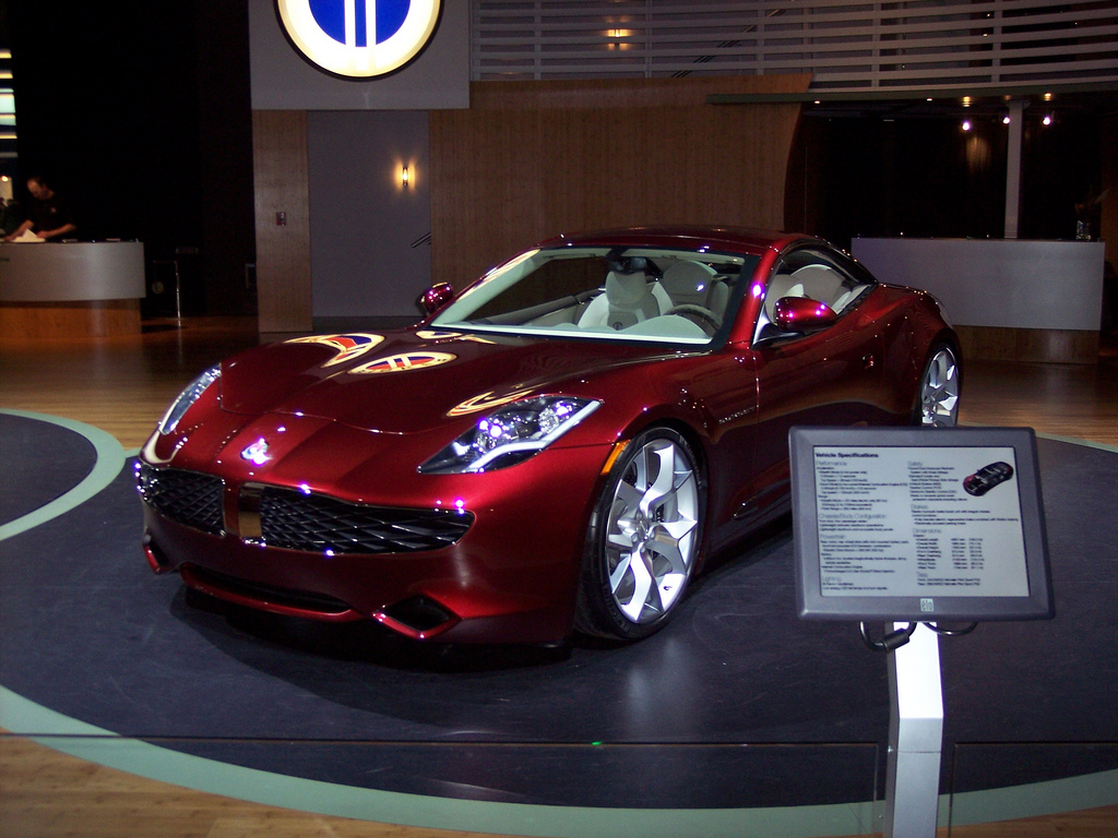 Pretty sweet, except that Fisker is in a relatively dark area.